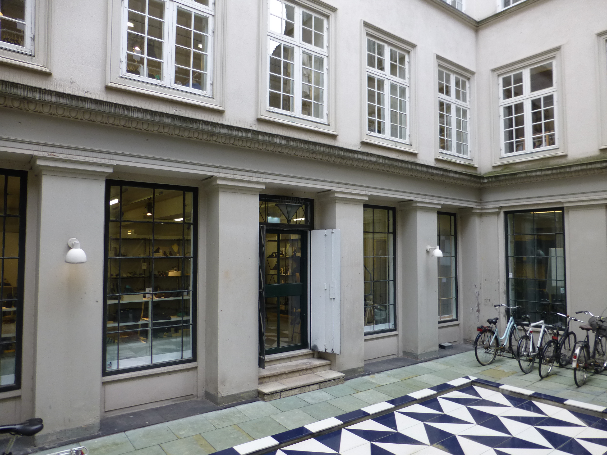 The passageway Klostergaarden between Amagertorv and Læderstræde in Indre By in Copenhagen. The backyard Bassingaard.